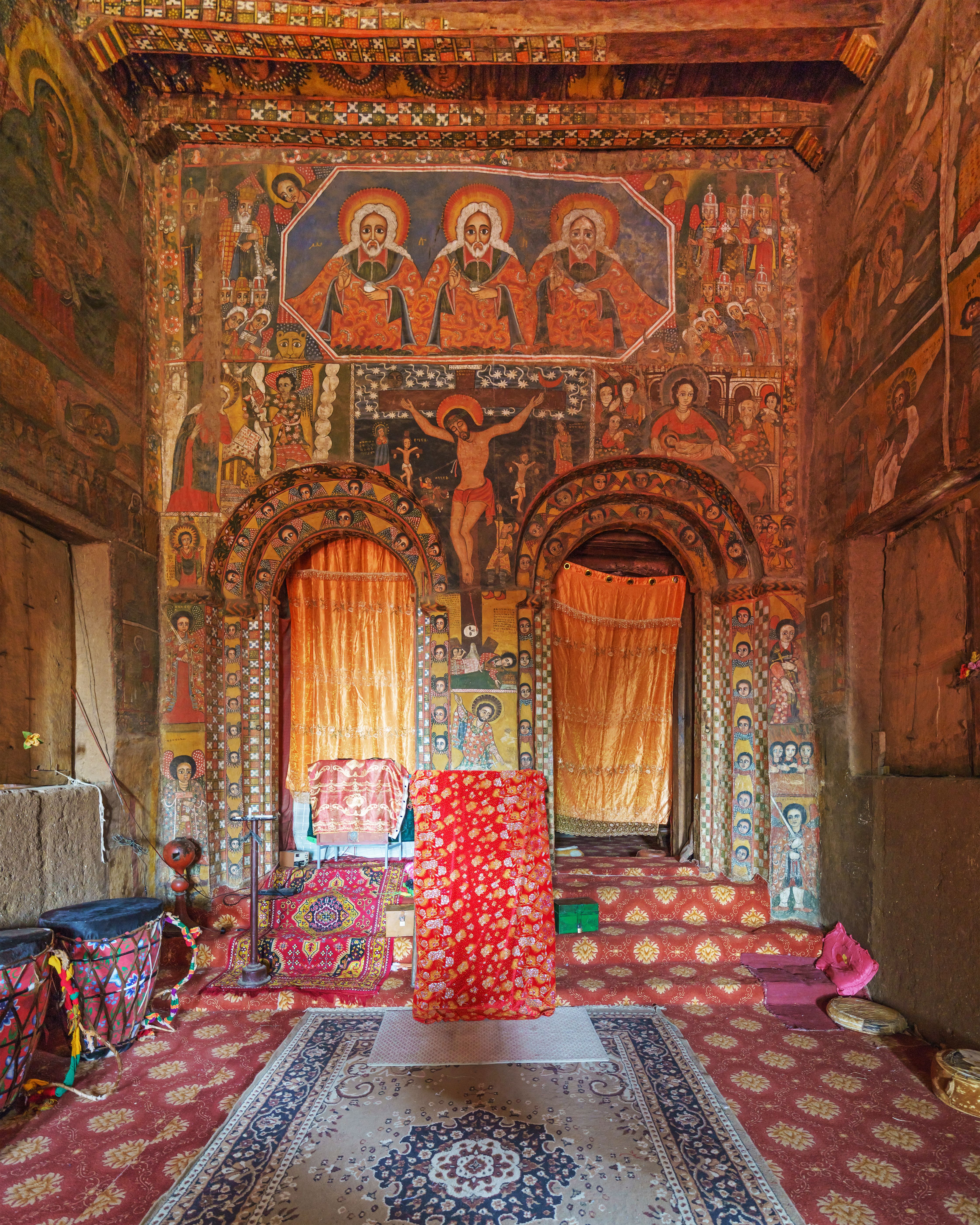 Monastery of Debre Berhan Selassie in Gondar, Ethiopia